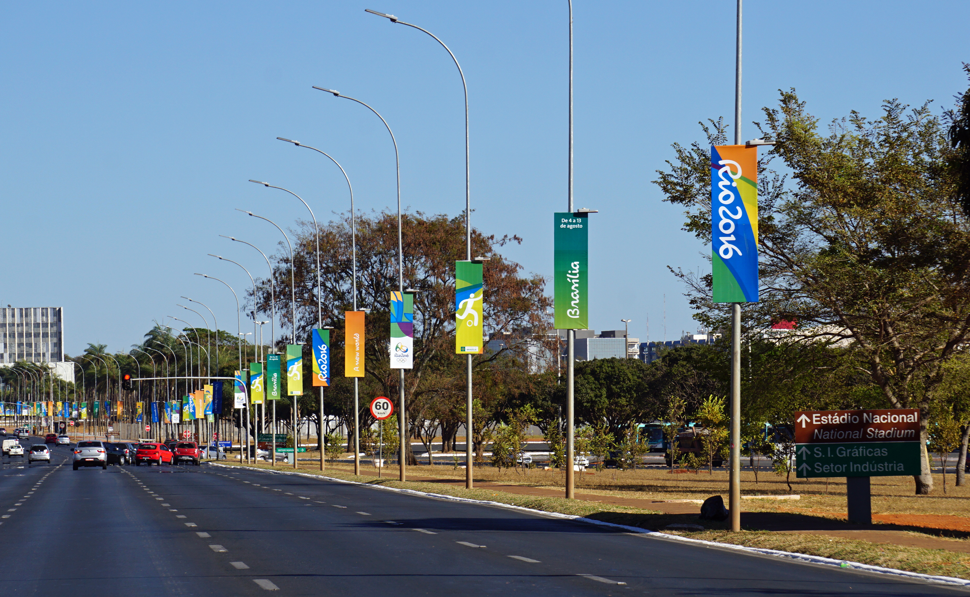 Summer Olympic Games Rio 2016 livery near Estadio Nacional Mane Garrincha, Brasilia, venue for several football matches. Warning: One or more elements in this image are protected by copyright Some parts of this file (copyrighted logos 2016 Summer Olympic Games or Rio 2016) are not fully free but believed to be de minimis for this work. Derivatives of this file which focus more on the non-free element(s) may not qualify as de minimis and may be copyright violations. As a direct consequence it might be needed to review the copyright status if you crop the picture. The reason given is: (no reason given).